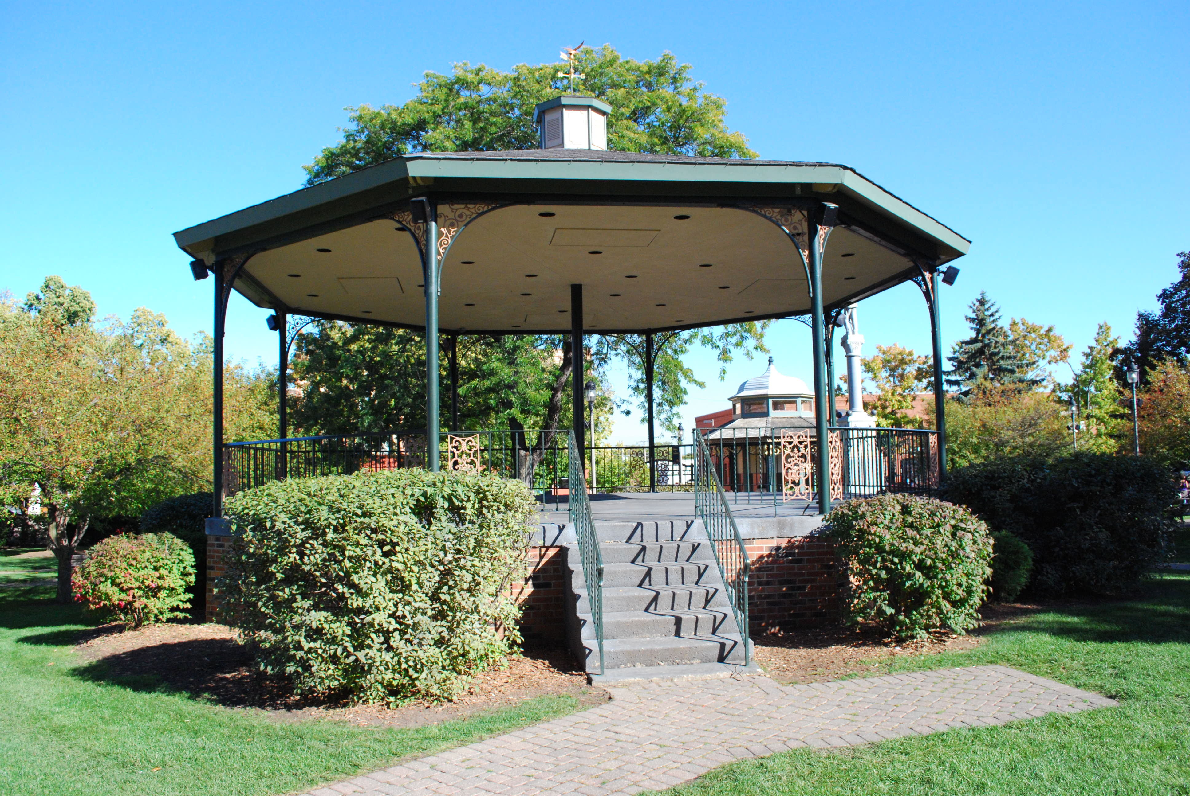 Woodstock Square Historic District